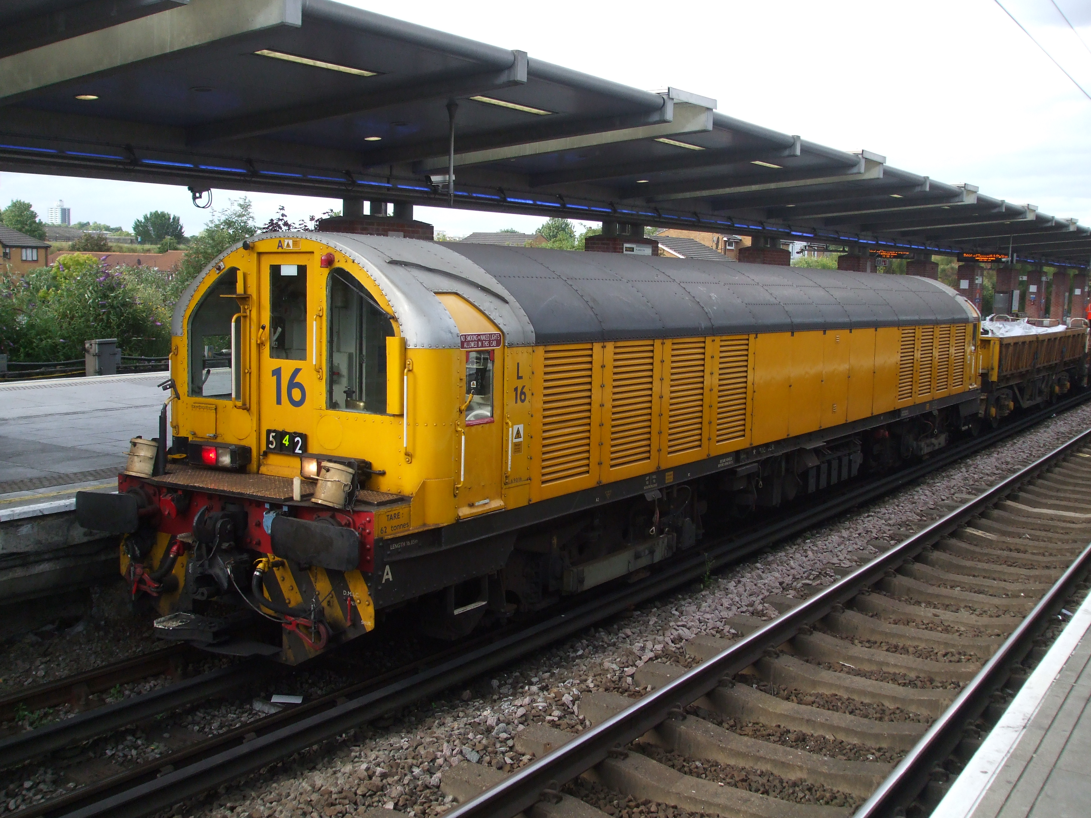 London Underground battery locomotive L16 heads an engineering train through West Ham District line westbound platform. The adjacent main line c2c service was unaffected. Date 19th July 2009.